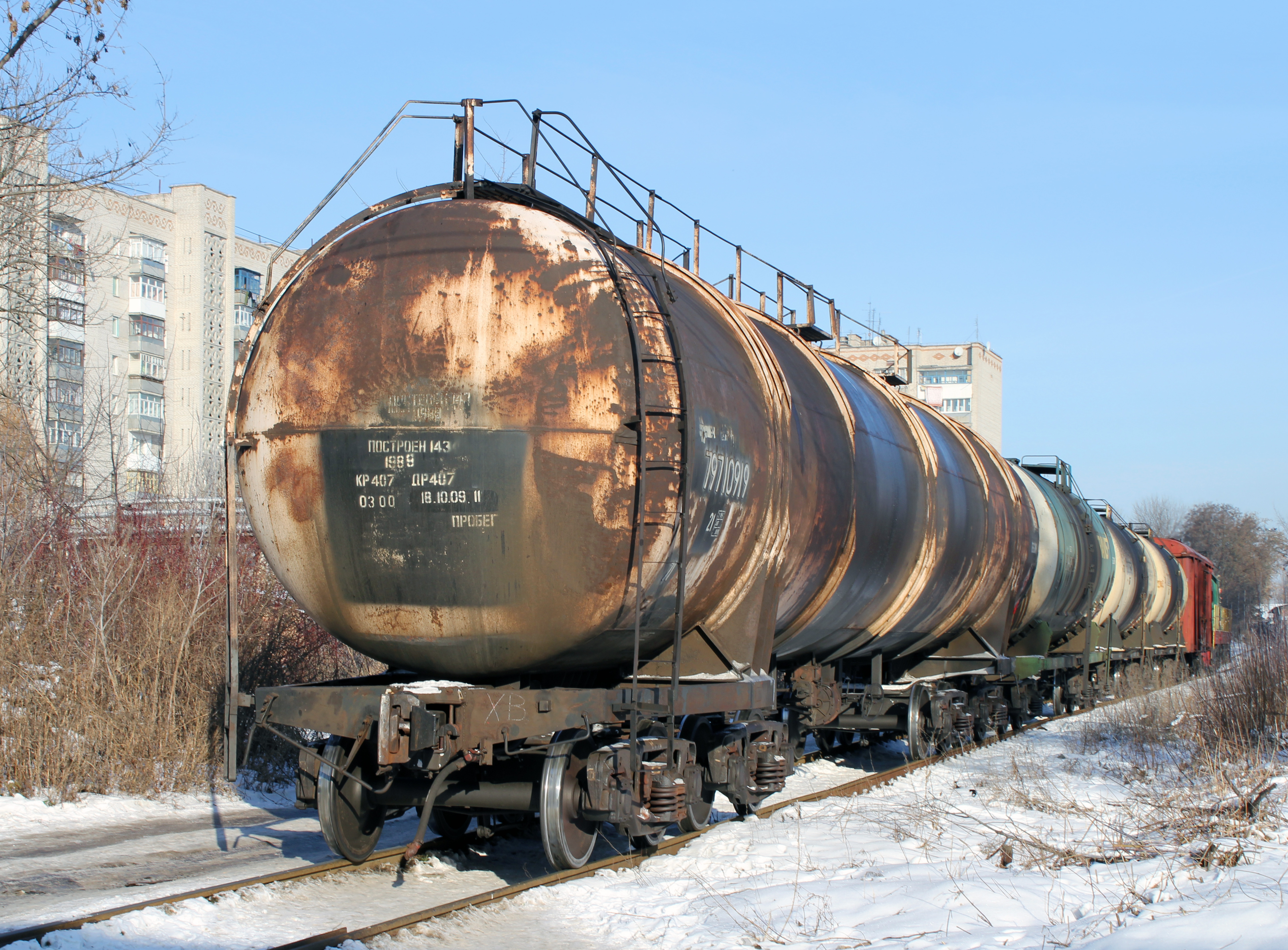 Tank cars in Vinnitsa.